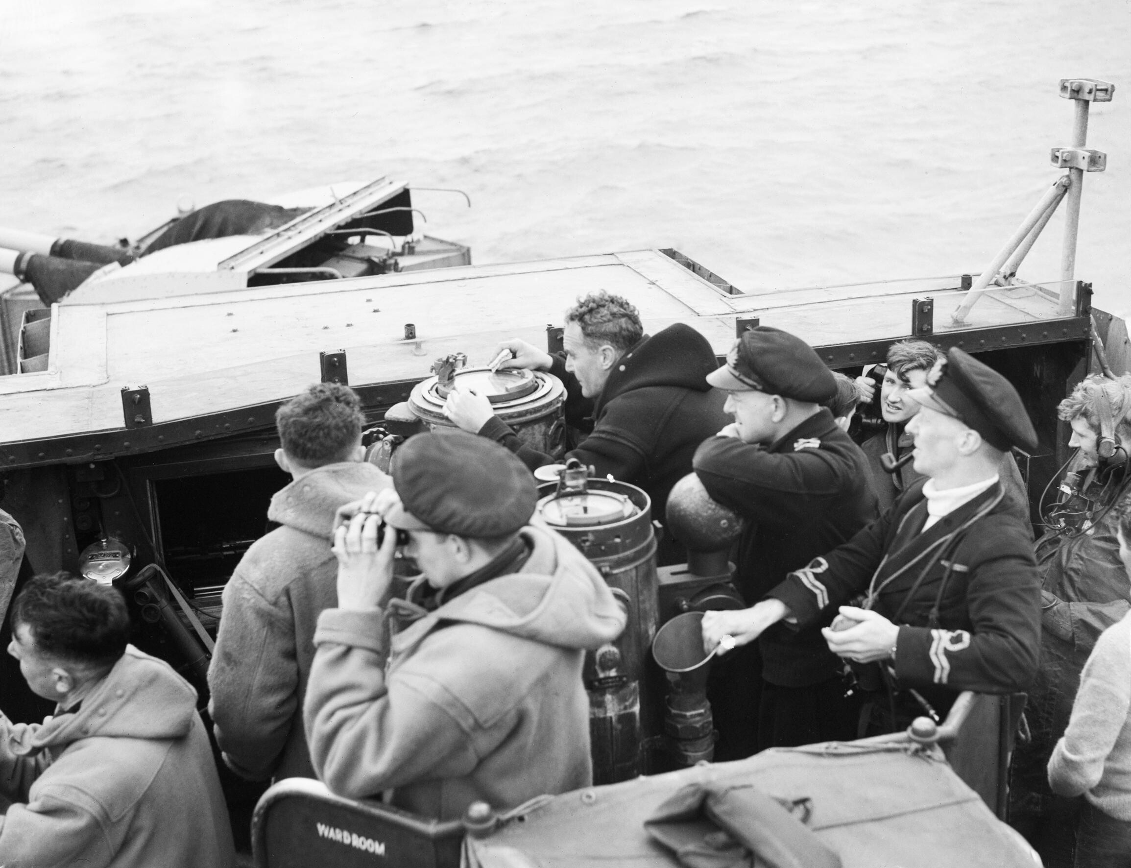 Out With U-boat Killer Number 1; the Second Escort Group's Success. 26 January To 25 February 1944, on Board HMS Starling. With the 2nd Escort Group, Commanded by Captain F J Walker, Cb, Dso and Two Bars, on His Most Recent and Most Successful Patrol. Three of the Group's Six U-boat "kills" Were Made Within 16 Hours. The Hunt is on, dramatic bridge scene on board the STARLING, as Capt Walker, his right hand clutching a hastily grabbed sandwich, takes a bearing on a submerged U-boat on receiving a report "Echo 180 degrees, 2000 yards Sir"